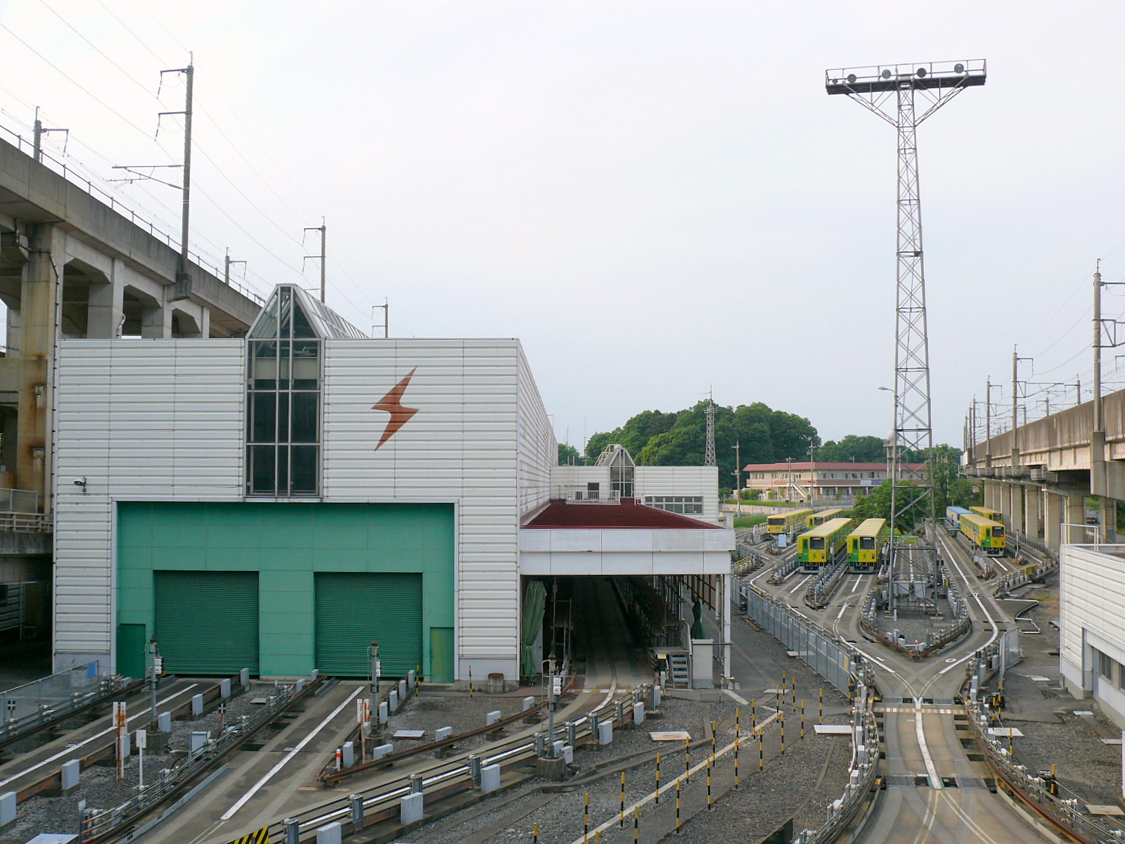 Saitama New Transit Maruyama Depot